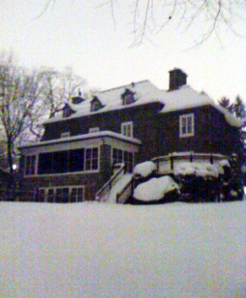 Kilmarnock Manor at Sillery, Quebec, was built in 1802 for John MacNider (1760-1829), Seigneur de Metis